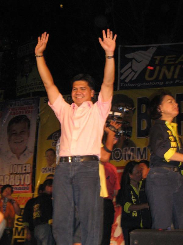 Mike Defensor at a political rally in Cebu City